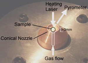 image made from photograph made by me.